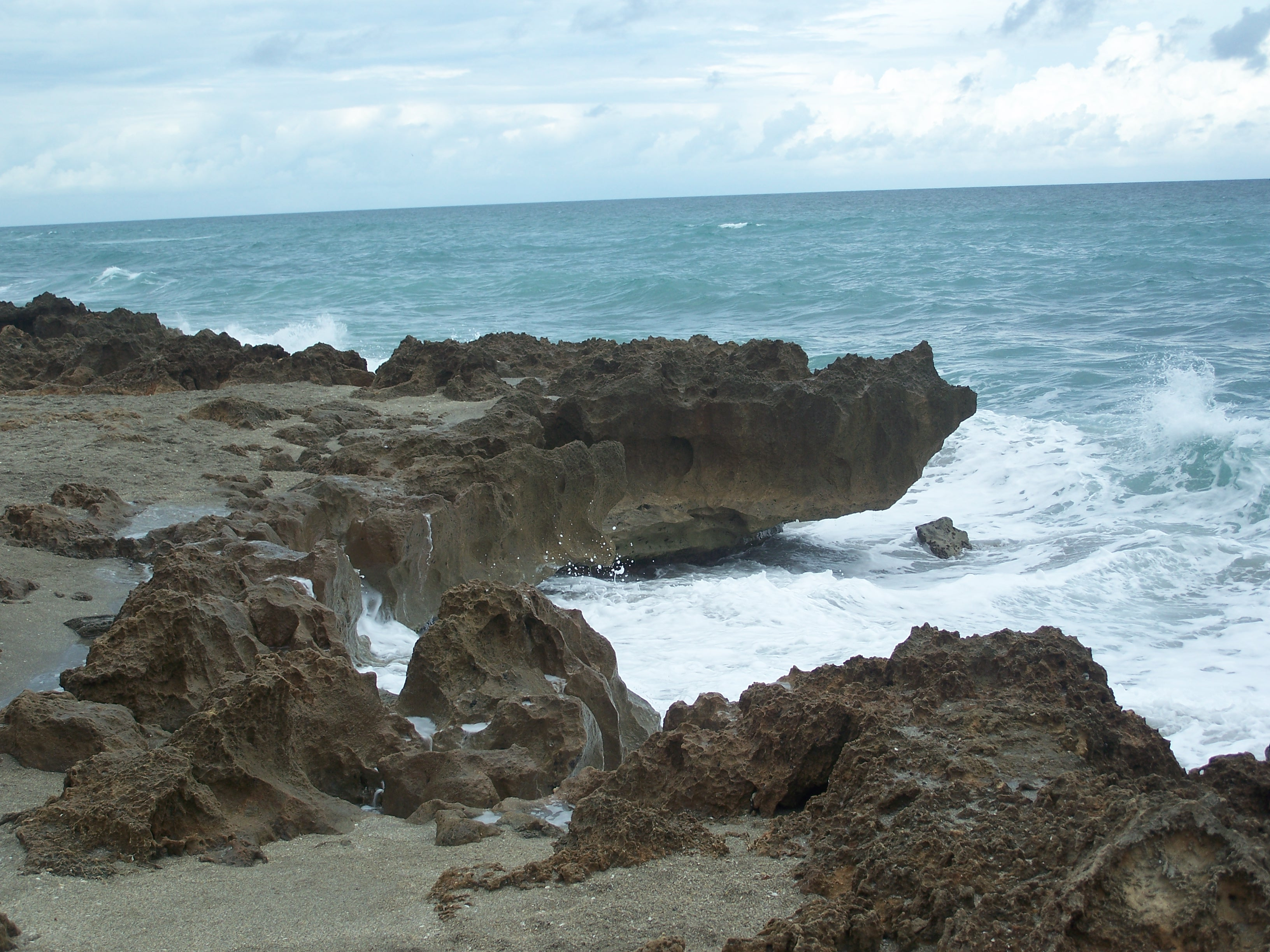 Hutchinson Island (Florida): Beach near House of Refuge at Gilbert's Bar, part of the Anastasia Formation